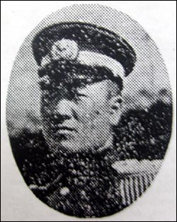 Kim Chang-young, first Korean modern mayor of Seoul and 2nd vice mayor of Seoul